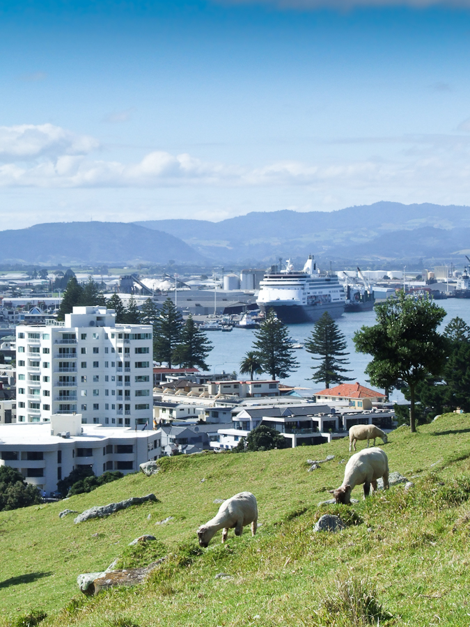 Sheep feeding on Mount Maunganui, with views of The Port of Tauranga.